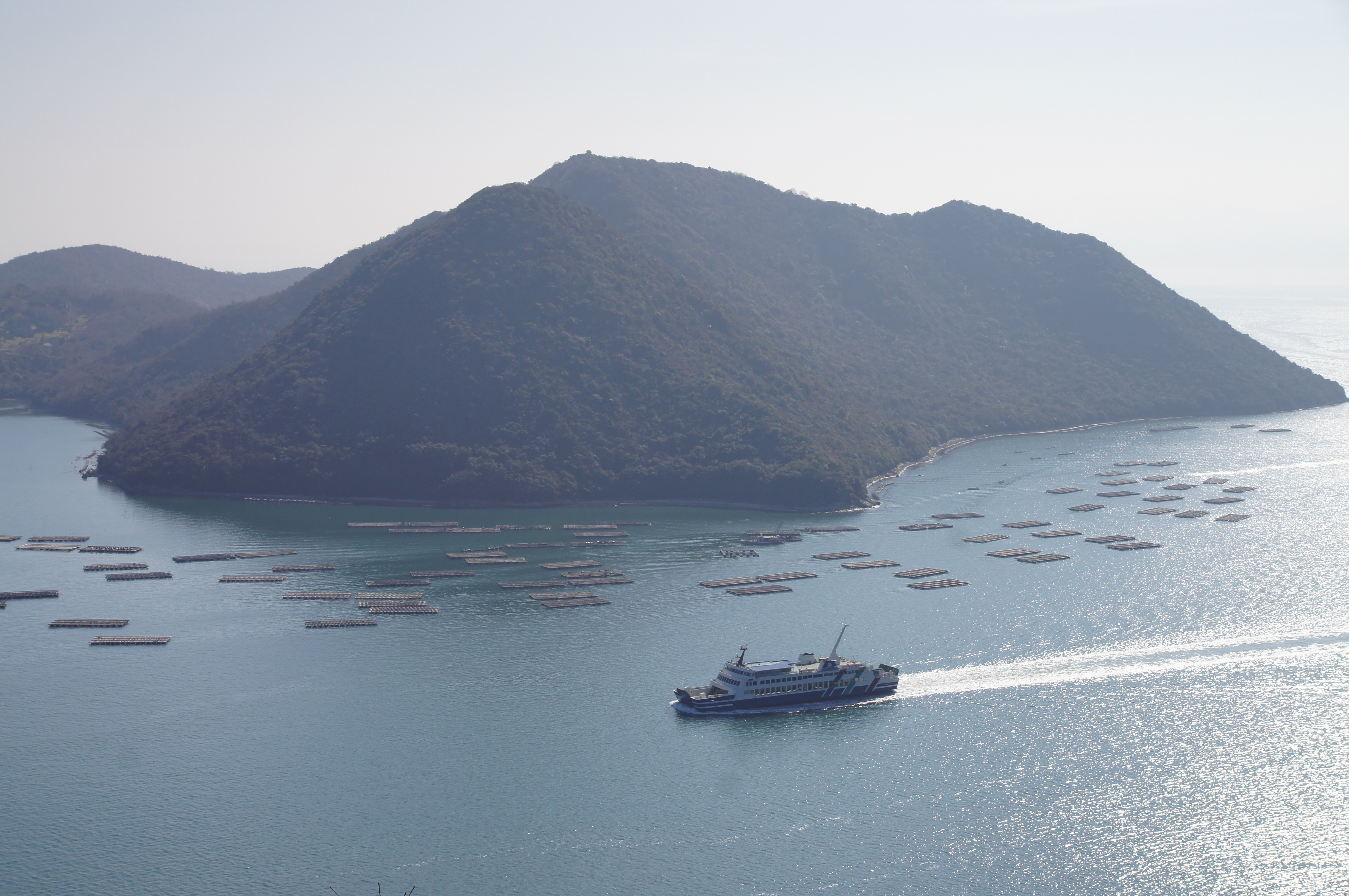 A view from Harbor View Park in Hinase, Bizen, Okayama prefecture, Japan